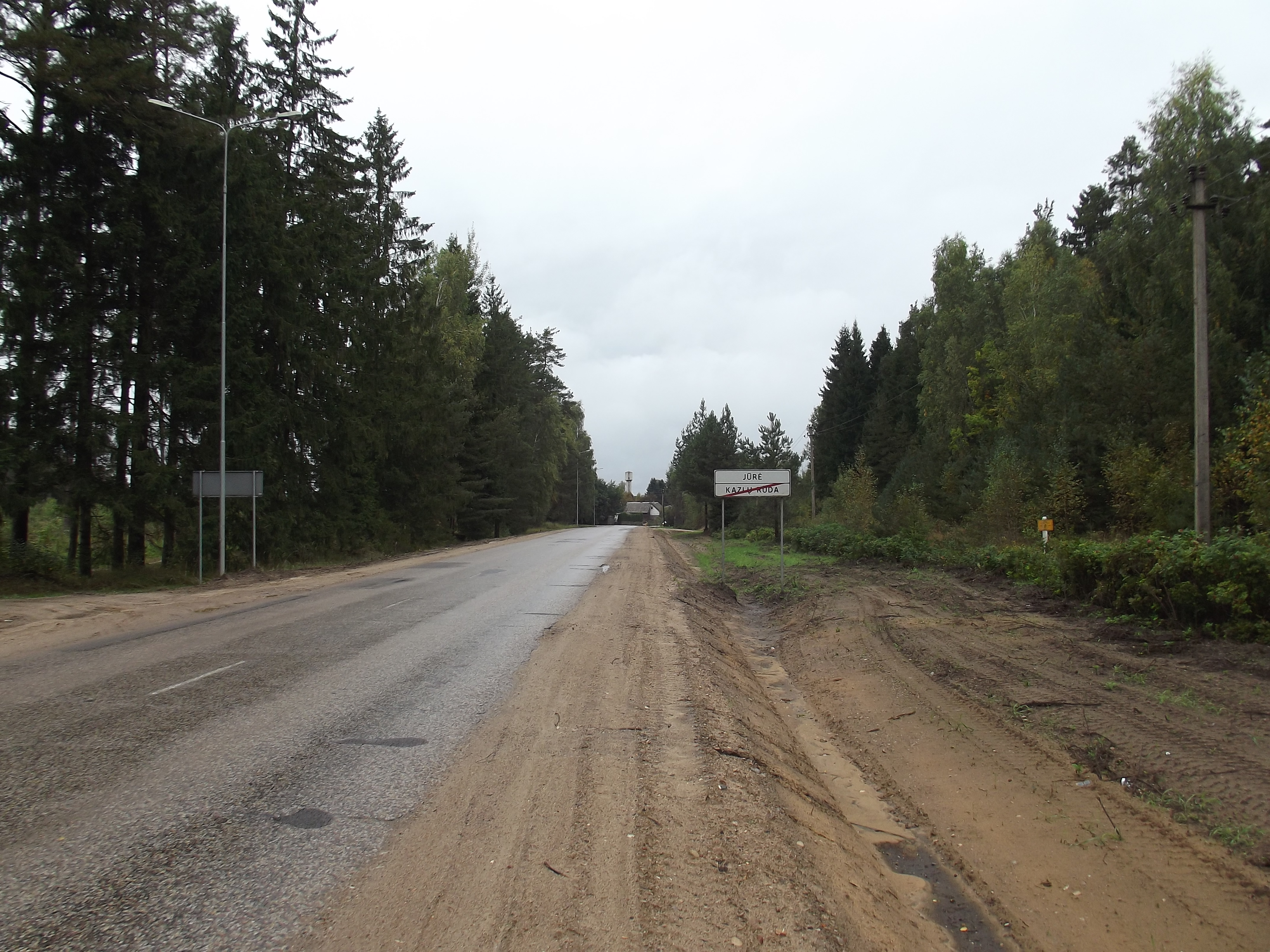 Jūrė village, Kazlų Rūda municipality, Lithuania